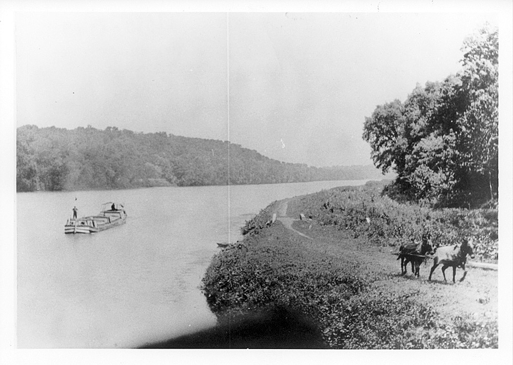 Historical photo of Canal boat #6 of Augustus Ashbury Hebb in the Big Slackwater of the Chesapeake and Ohio Canal.